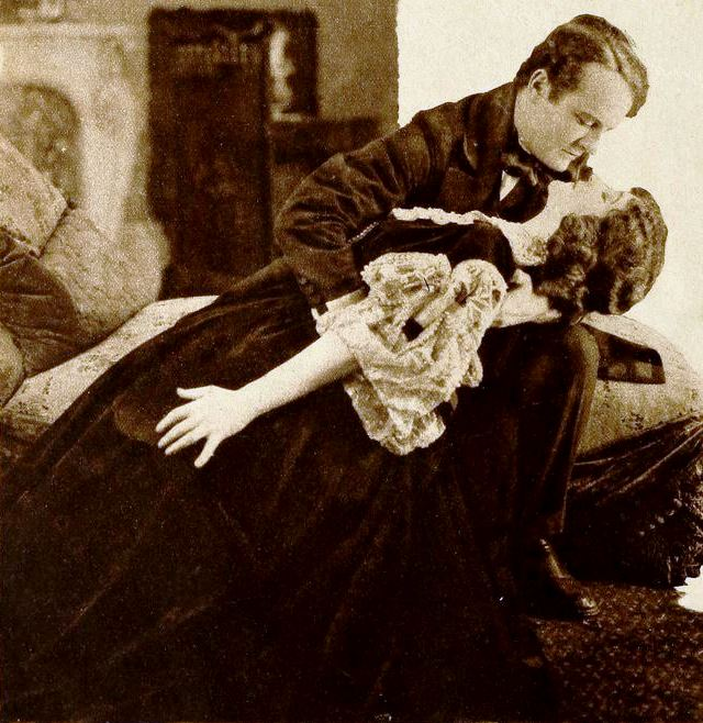 Still (cropped for use in a magazine) from the American film Romance (1920) with Basil Sydney and Doris Keane, from an adaption of the film on page 62 of the July 1920 Motion Picture Magazine.